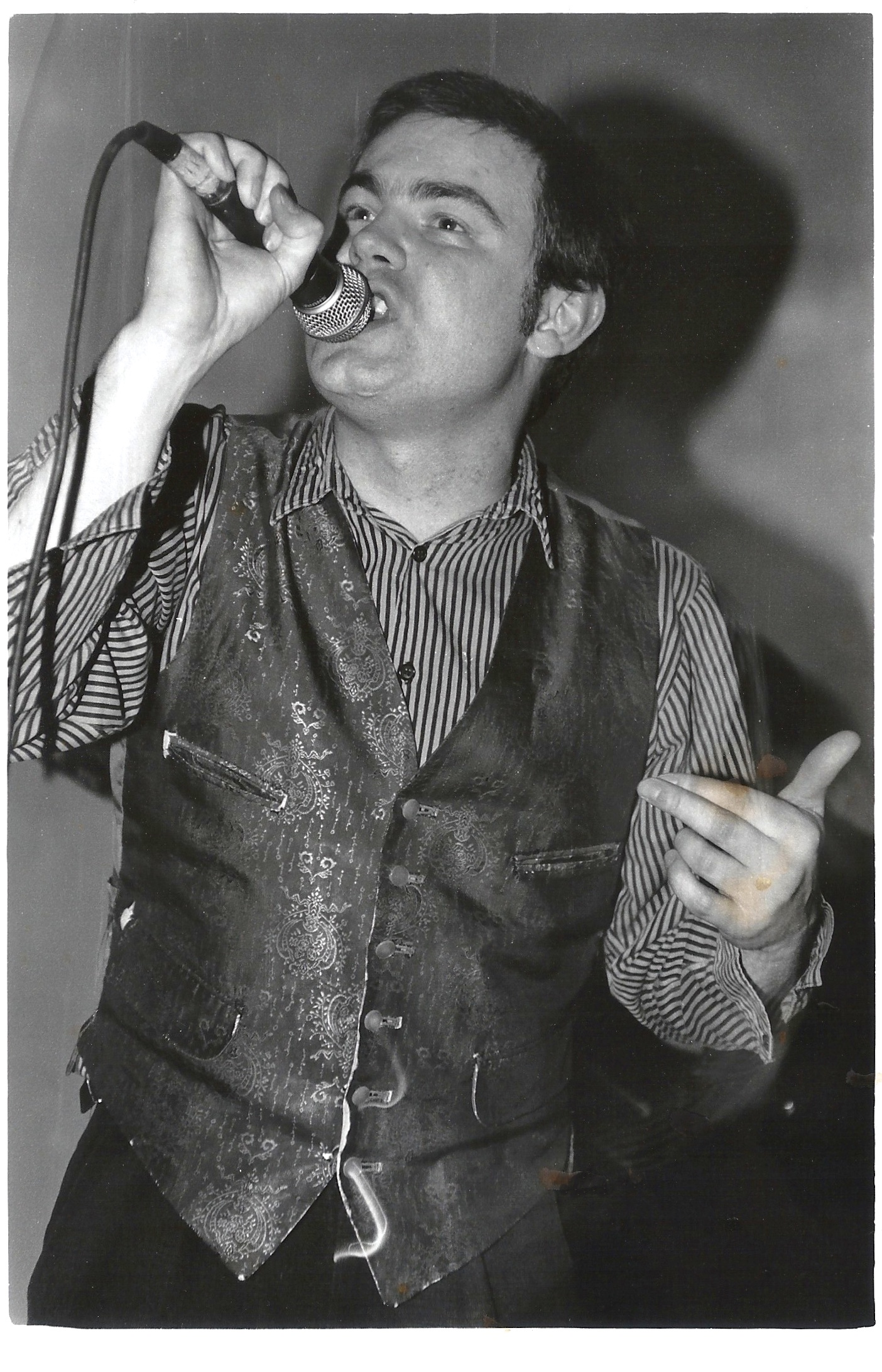 Moonshake; the Lizard / Sausage Machine Christmas Party, Camden Irish Centre, London 1994 the Lizard / Sausage Machine Christmas Party 1994 photo set. Neate photos facebook page. More neate photos.